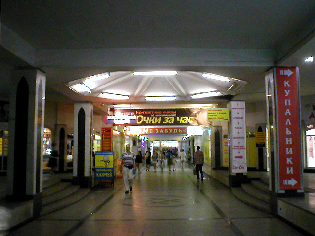 underground gallery on Tuqay square in Kazan